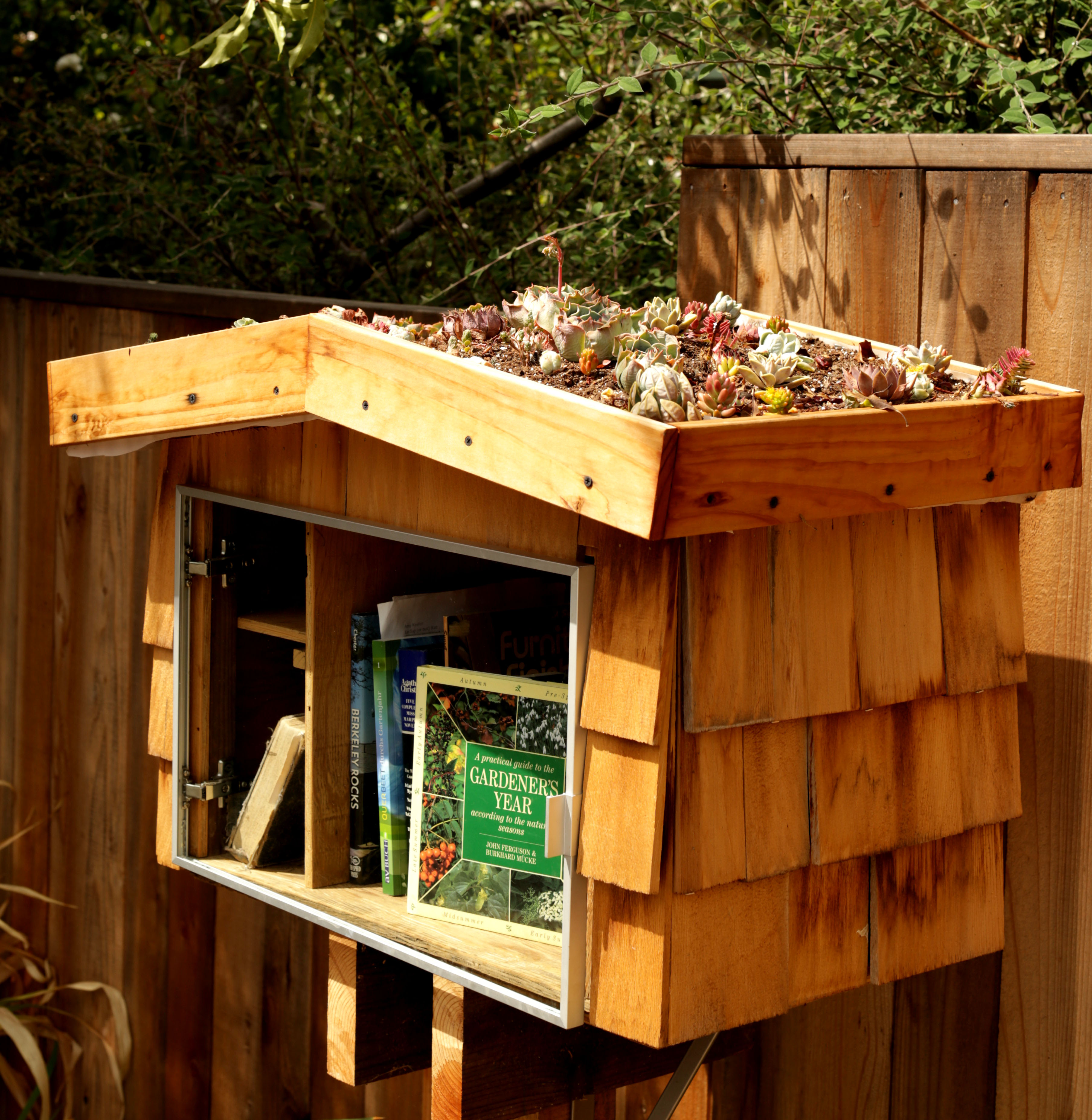 Wooden container with shingles and roof planted with succulents housing a Little Free Library in Berkeley, California, United States